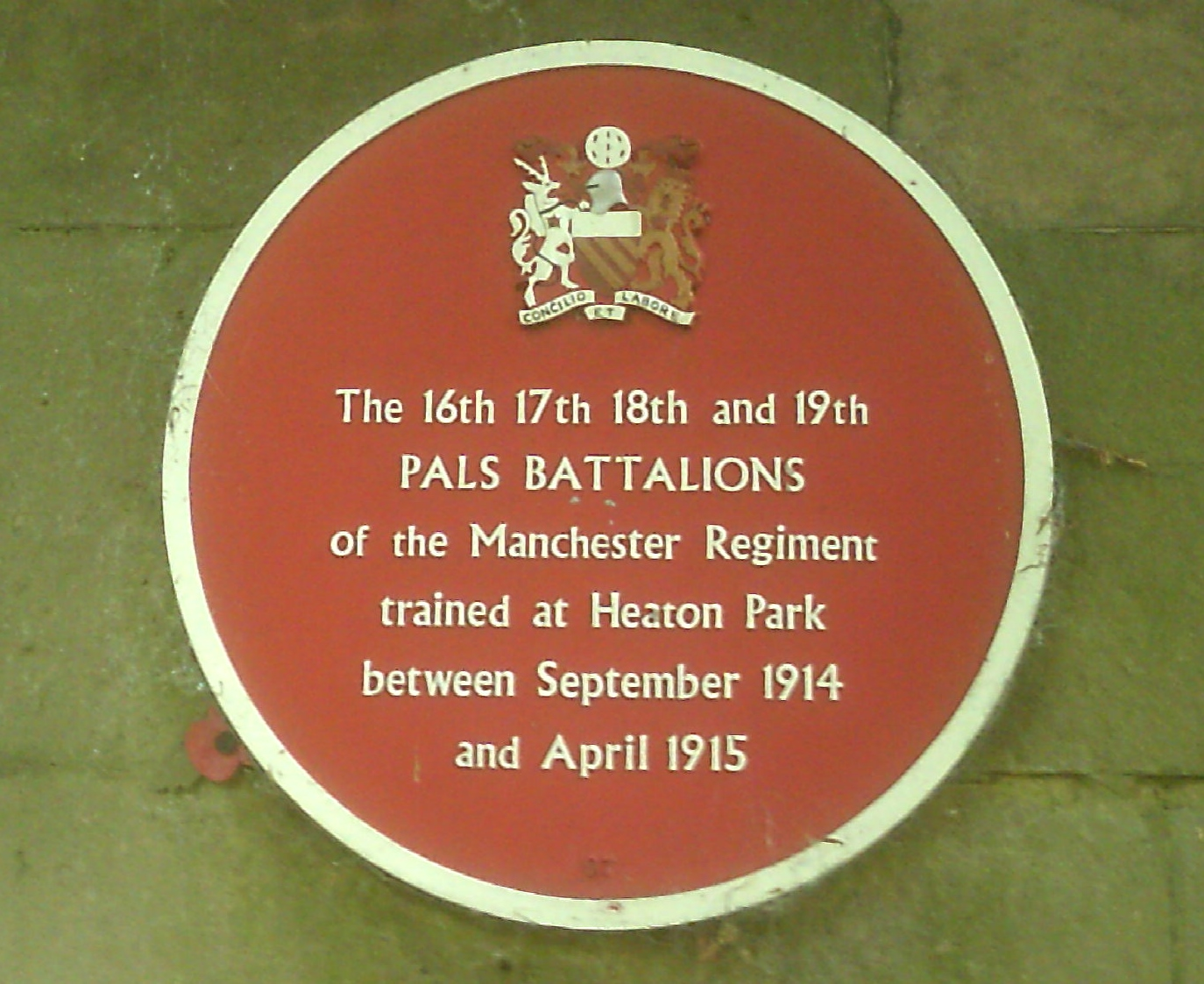 Commemorative plaque for the Pals Battalions